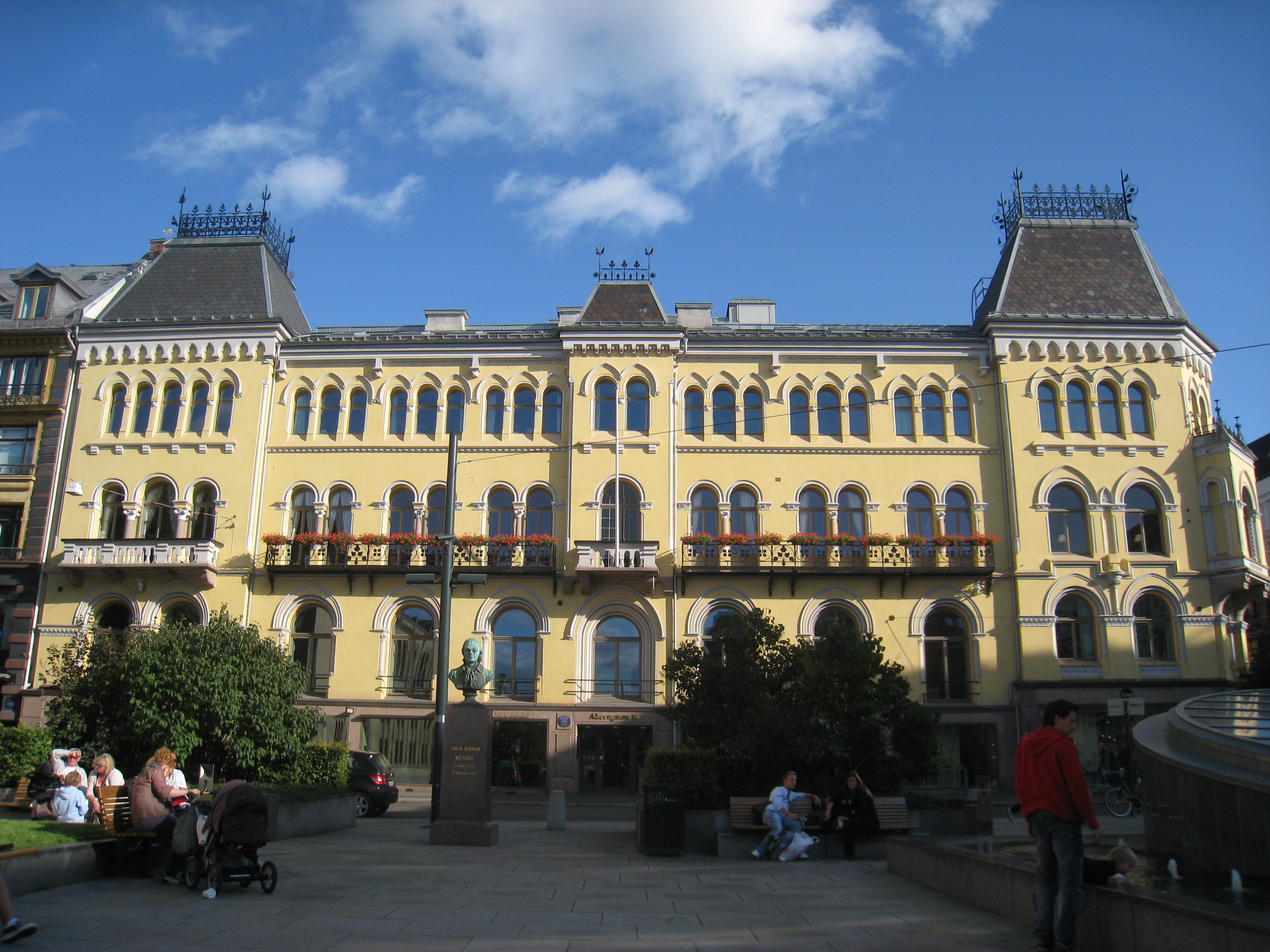 Athenaeum building, Oslo, Norway. According to a plaque on the building, it was constructed 1872-1883 to designs by architects Bernhard Steckmest and Paul Due.